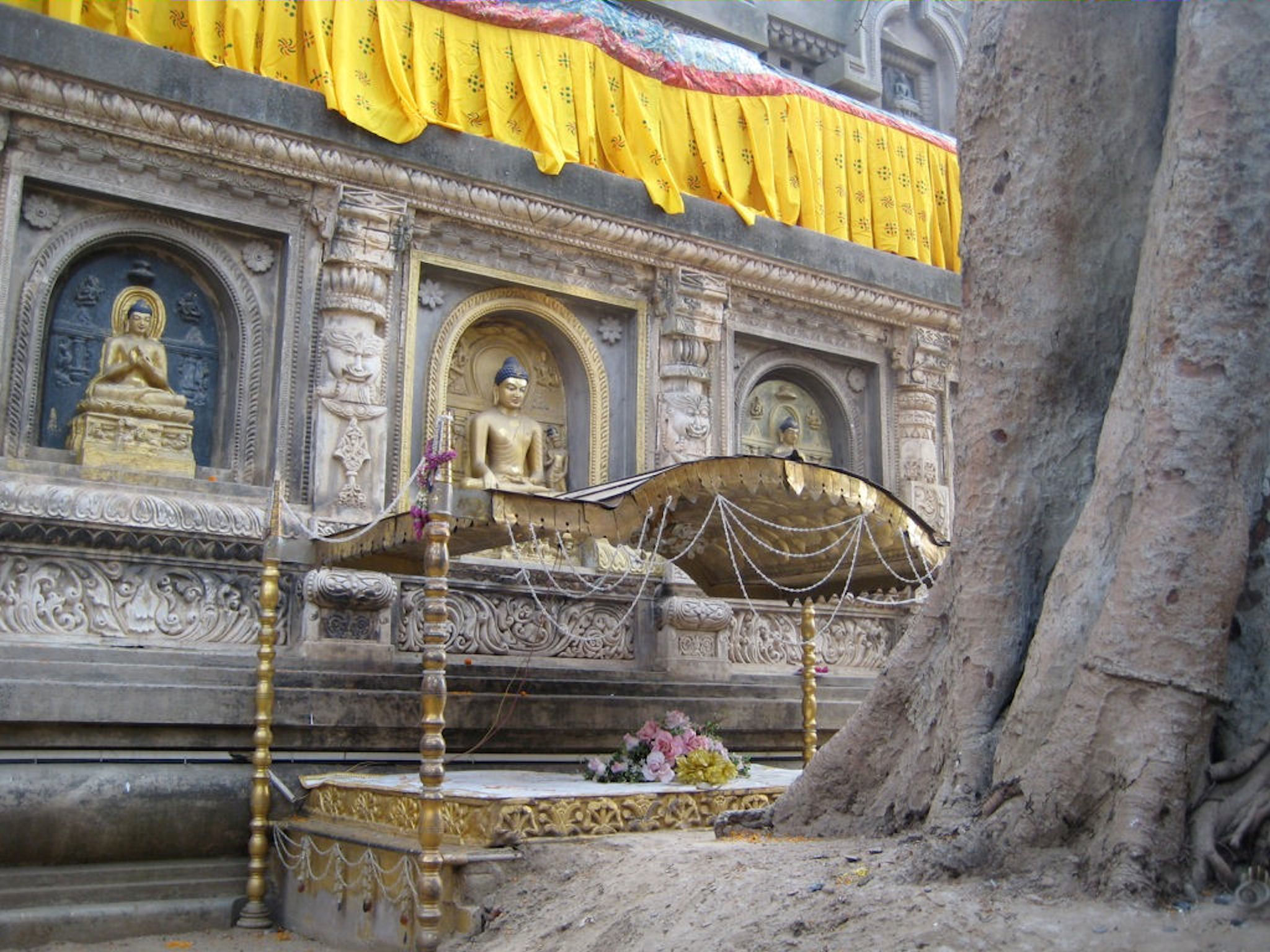 Diamond Throne Vajrasana in Bodh Gaya